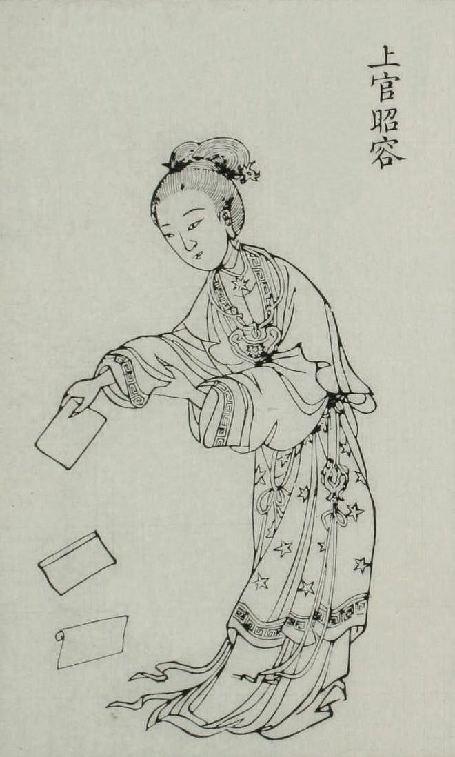 This is a image about the Shangguan Wan'er.